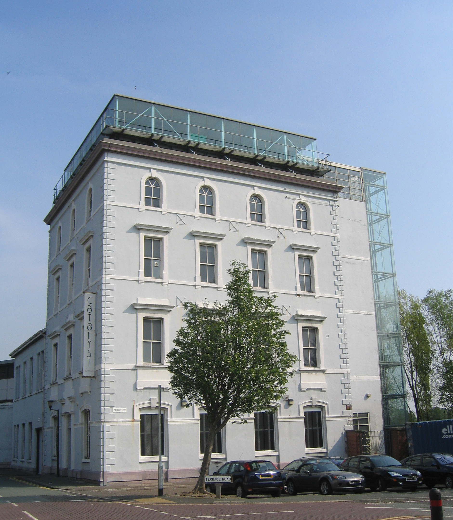 Photograph of Tower Building, Widnes, Cheshire, with number plates blanked